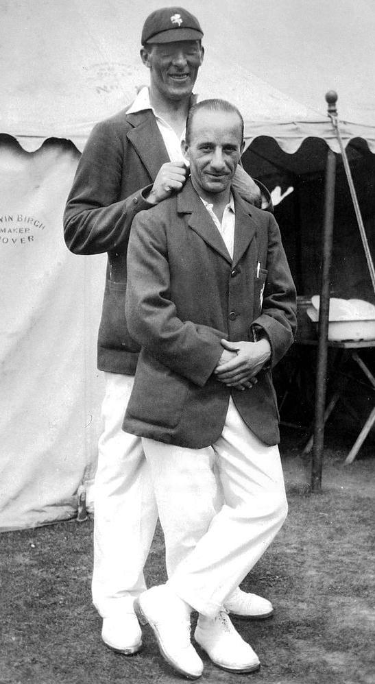 Sport/Cricket, circa 1930, Kent stalwarts A,P,'Tich' Freeman and A,C,Wright, (behind)